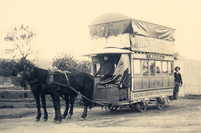 Three-quarter view of a double-deck horse tram with two horses, a driver at the reins and a ticket collector on the back platform. Part of a large depot shed is in the background. On the side is a destination sign reading "Magill" , the tram number (probably 54) and "Adelaide & Suburban Tramway Co. Limited". The driver is wearing a cape; next to him and on the upper level are waterproof tarpaulins. Large advertisements for Sunlight soap and Mellin's Food are visible.